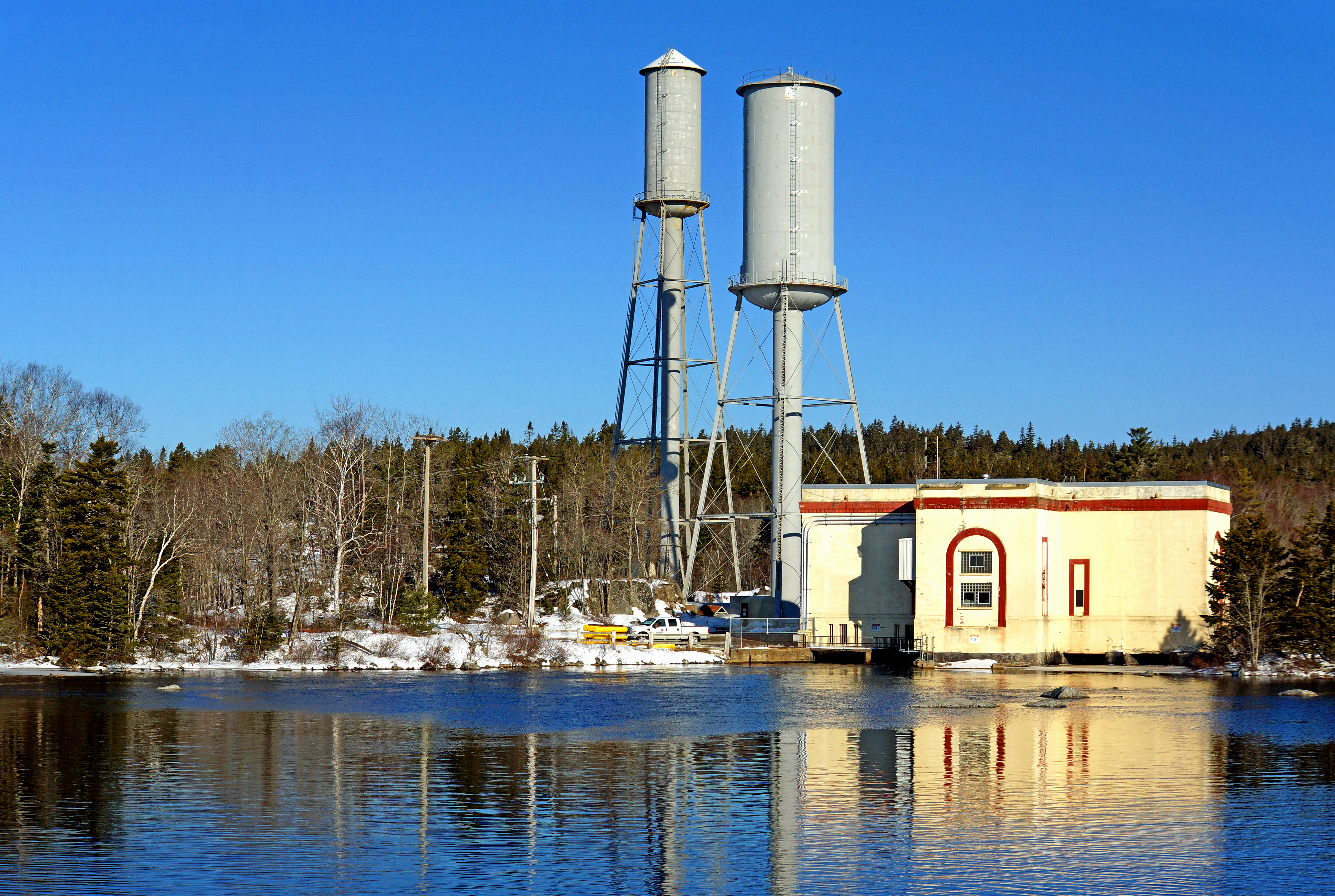 The Mill Lake Hydro Electric Plant. This addition in 1931 increased the systems total power capacity of 13,010 horse power and supplied about 30,000,000 kWh annually to homes in Halifax, Nova Scotia.